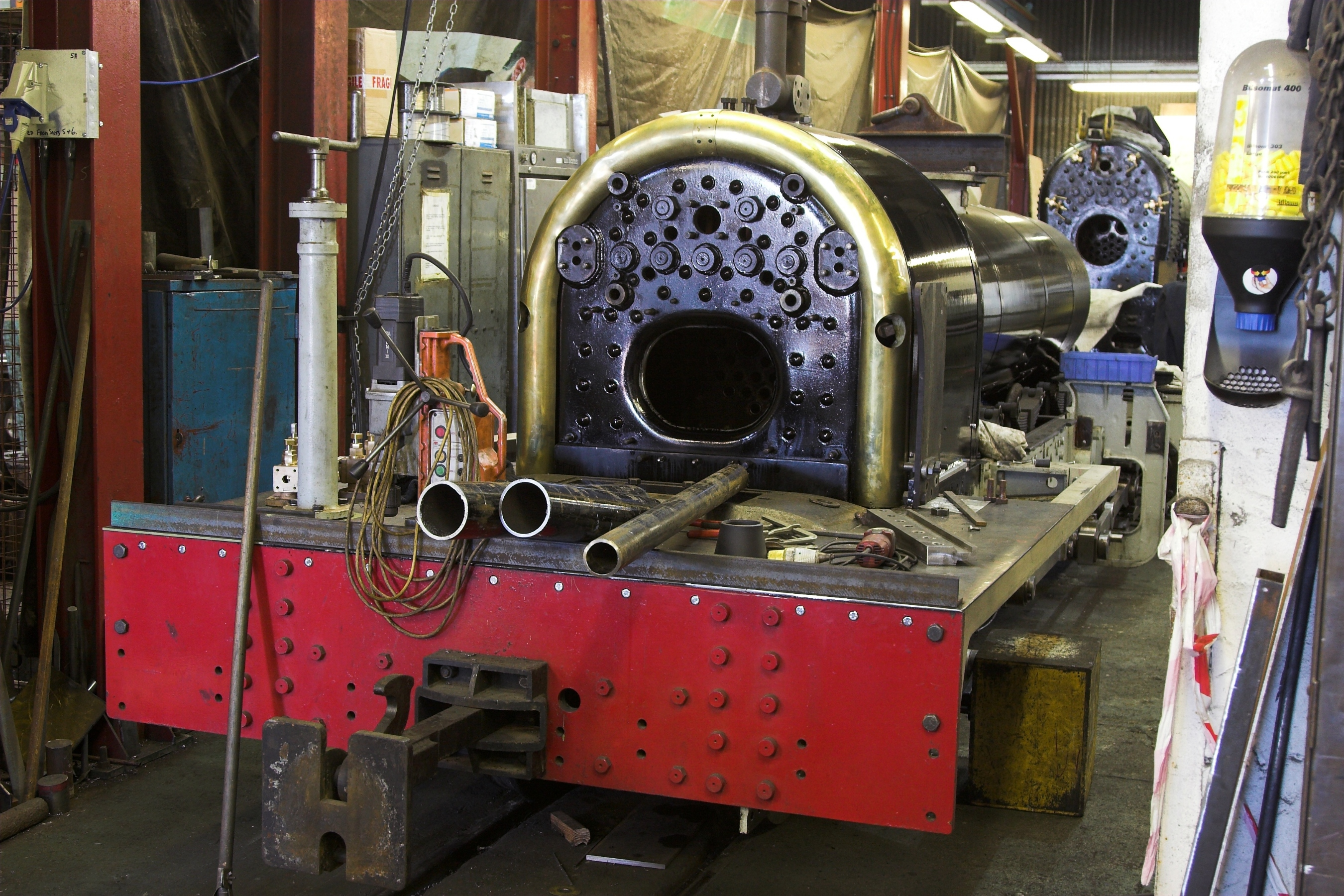 New built Lynton and Barnstaple Manning Wardle Lyd at the Ffestiniog Railway's Boston Lodge works. Boiler cladding was recently applied.